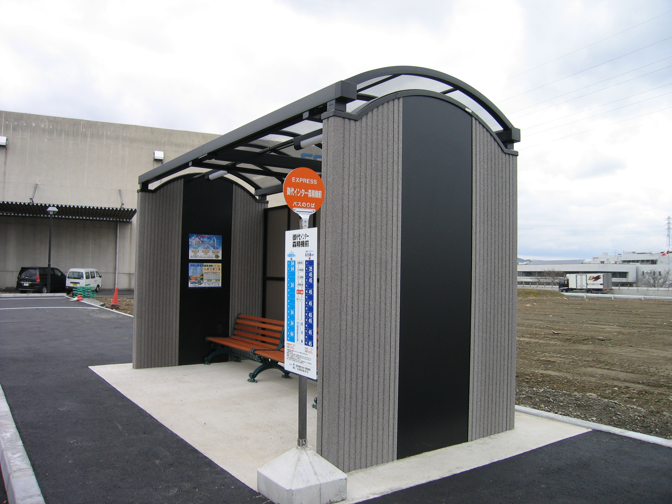 Mie Kotsu Midai-Inter Mori-Seiki-mae (Midai Interchange and Mori Seiki Co., Ltd.) Bus Stop